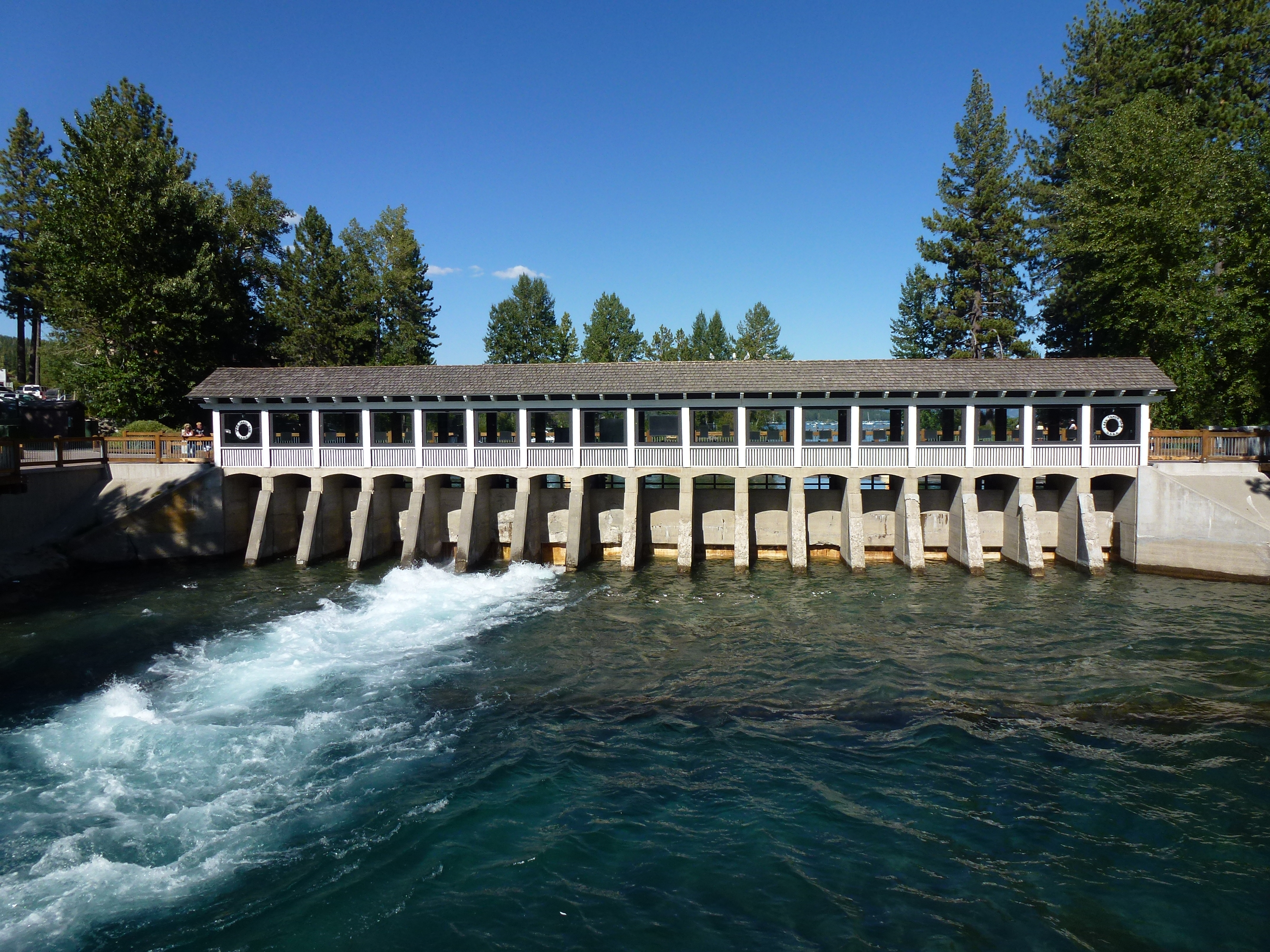 The Lake Tahoe Dam in Tahoe City, California. The dam is located on the only outlet of Lake Tahoe, the Truckee River.